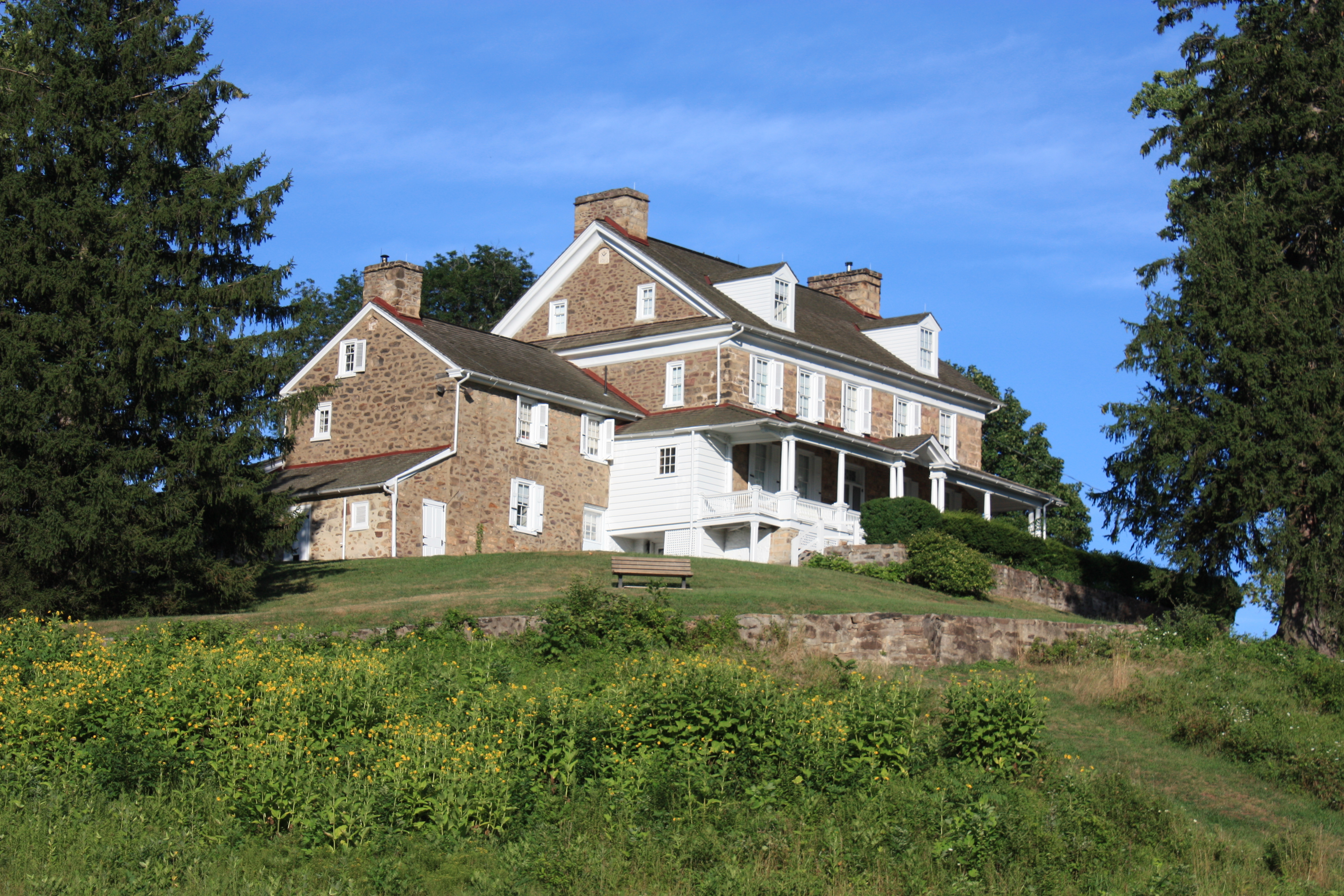 Mill Grove Mansion